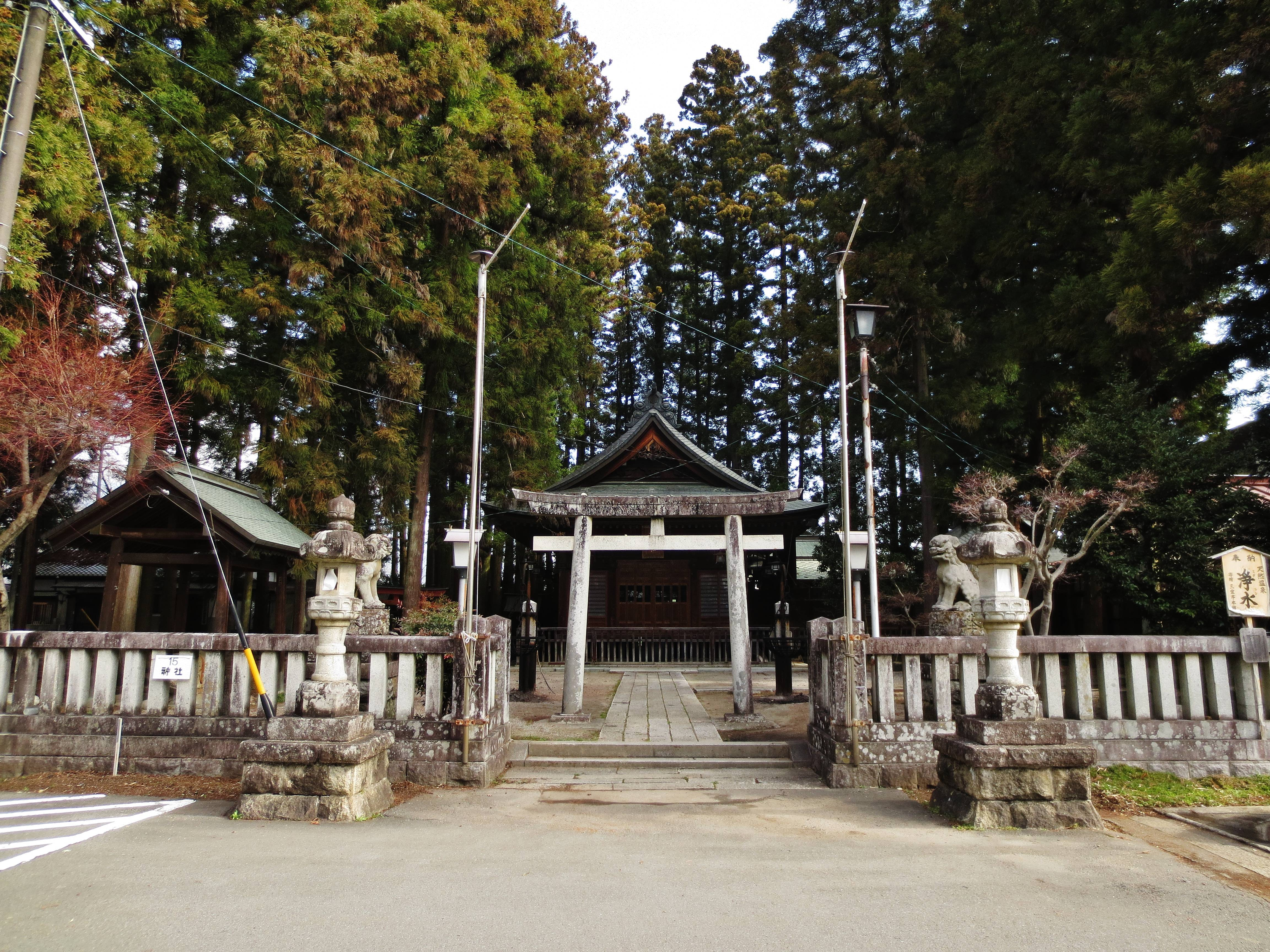 Osahime-jinja.